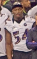 Baltimore Ravens running back Ray Rice is tackled by 2 San Francisco 49ers defensive players during Super Bowl XLVII.